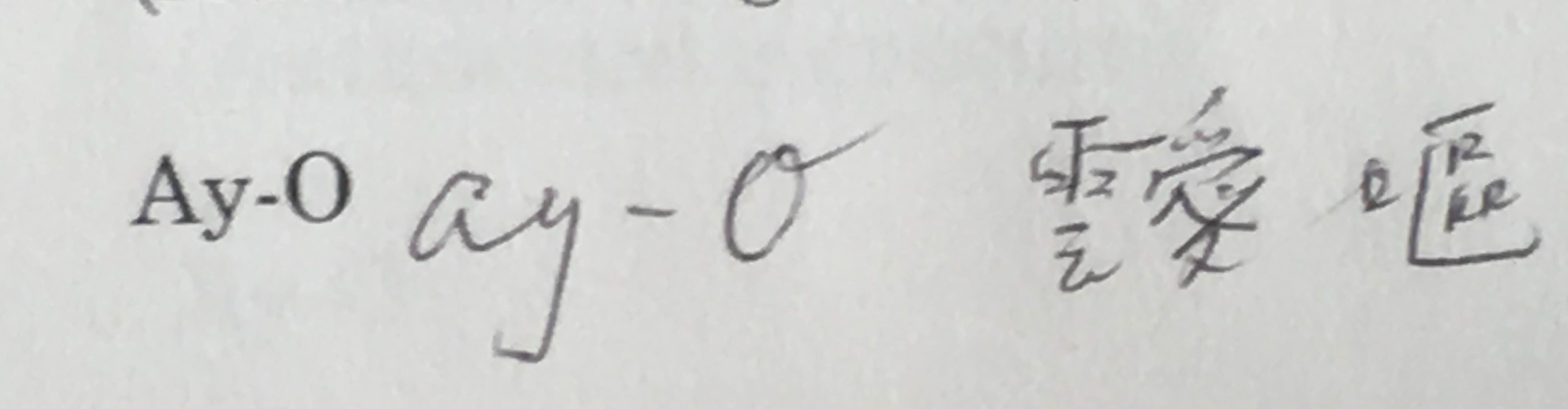 This is a paper signature of Ay-O with kanji.